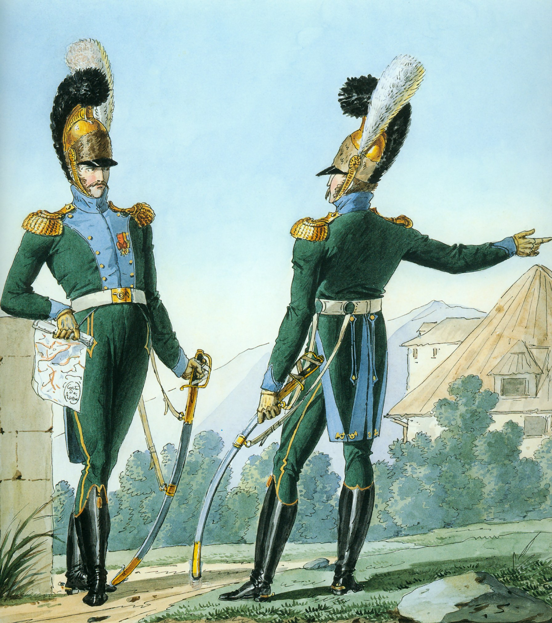 Part of a series chronicling the uniforms of Napoleon's Grande Armée.